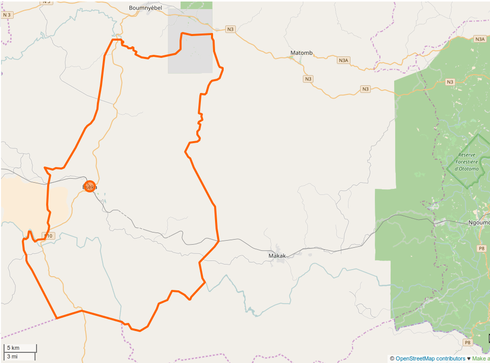 Eseka in Cameroon ː city boundaries with OSM. This map may be incomplete, and may contain errors. Don't rely solely on it for navigation.